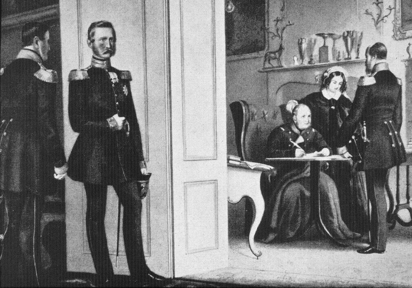 Frederick Wilhelm IV, suffering from the effects of a stroke, appoints his brother Wilhelm as his representative. October 23, 1857.